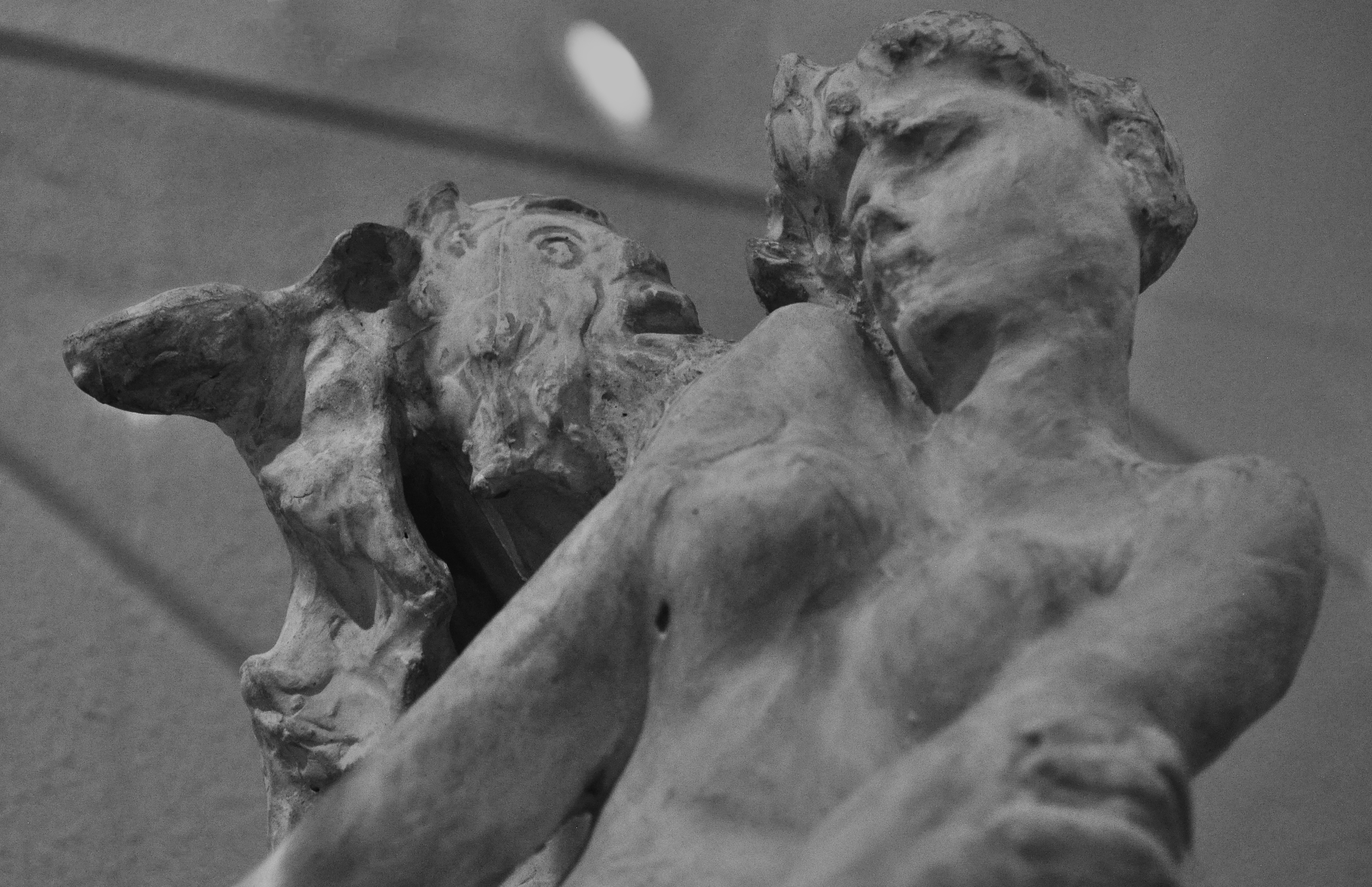 Auguste Rodin, The Minotaur (detail), c. 1886. Plaster. Maryhill Museum of Art, Maryhill, Washington, U.S.